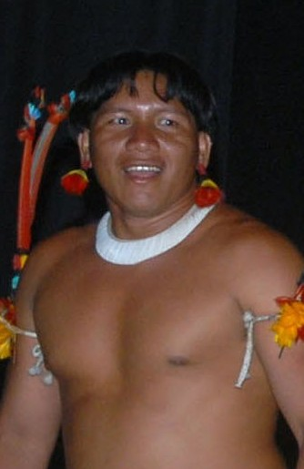 Kuikuro man at Brazil's Indigenous Games